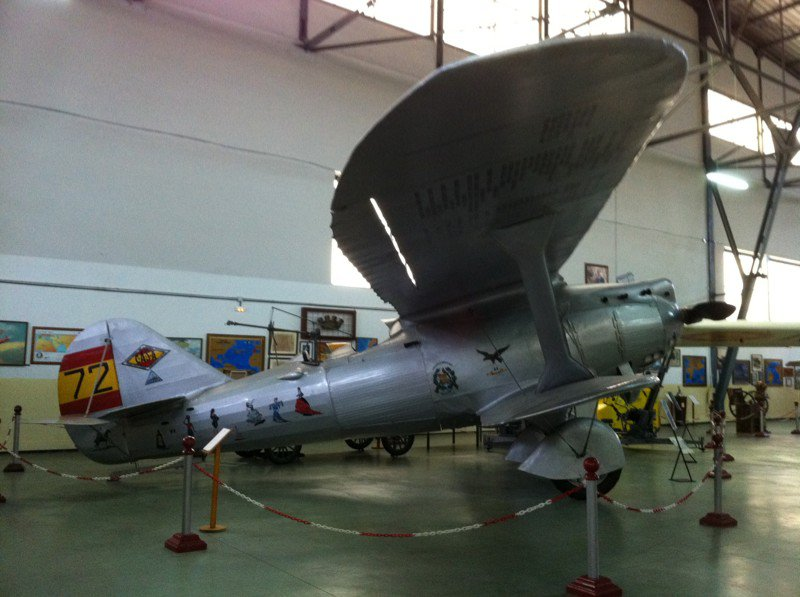 A spanish aircraft special version of french Breguet 19. In 1929, it went to Brasil from Spain, this aircraft was first to crossed ocean atlantic in this way.